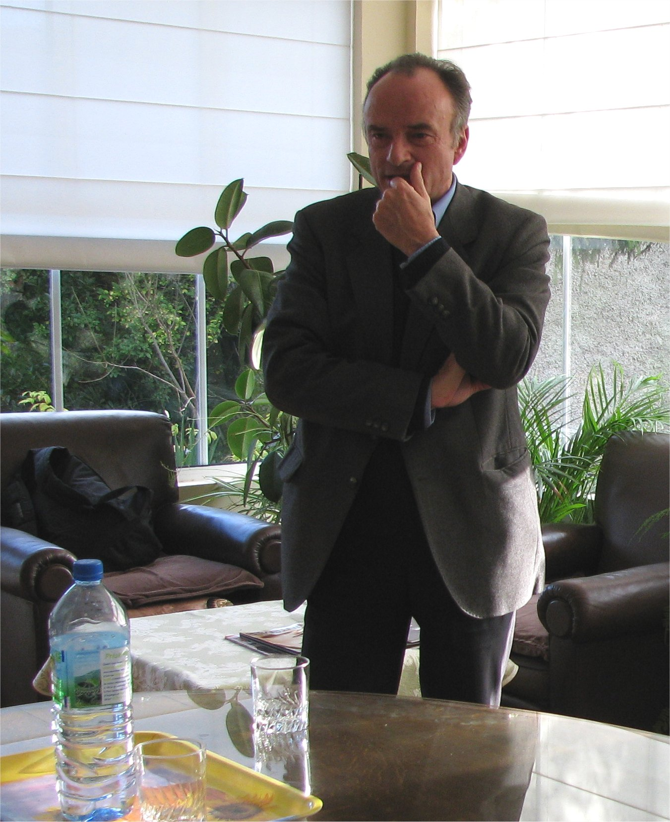 Wojciech Sikora, Polish publicist, editor-in-chief of "Association Institut Littéraire Kultura" (Le Mesnil-le-Roi par 78600 Maisons-Laffitte, France). He lives in France